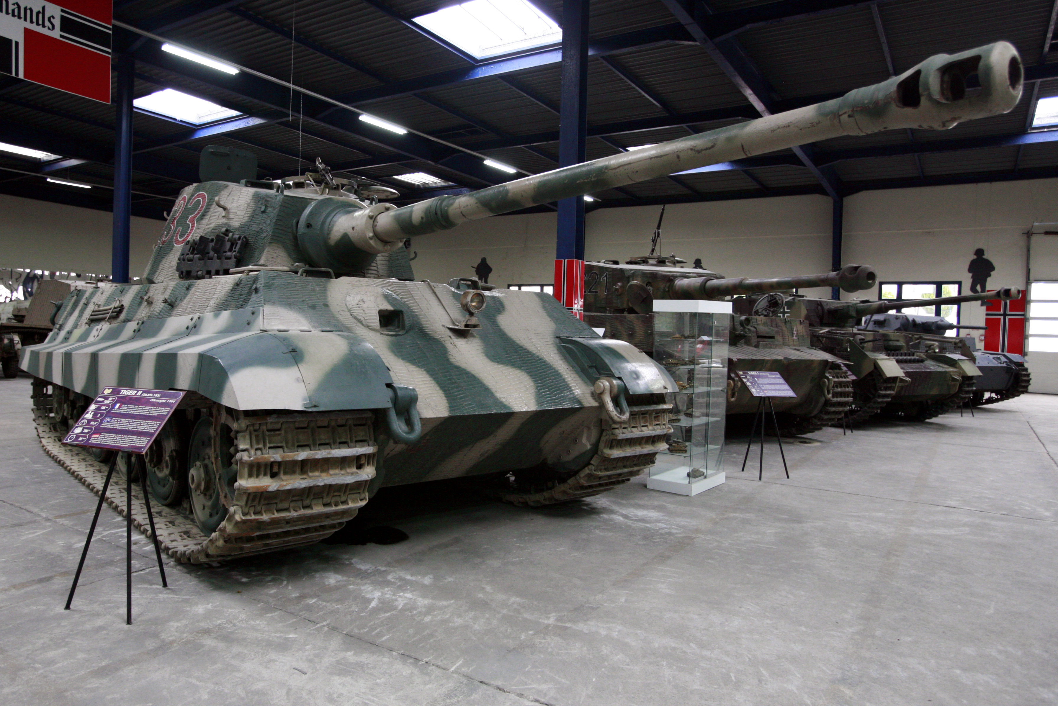 Tiger II. On display at Saumur Général Estienne museum.